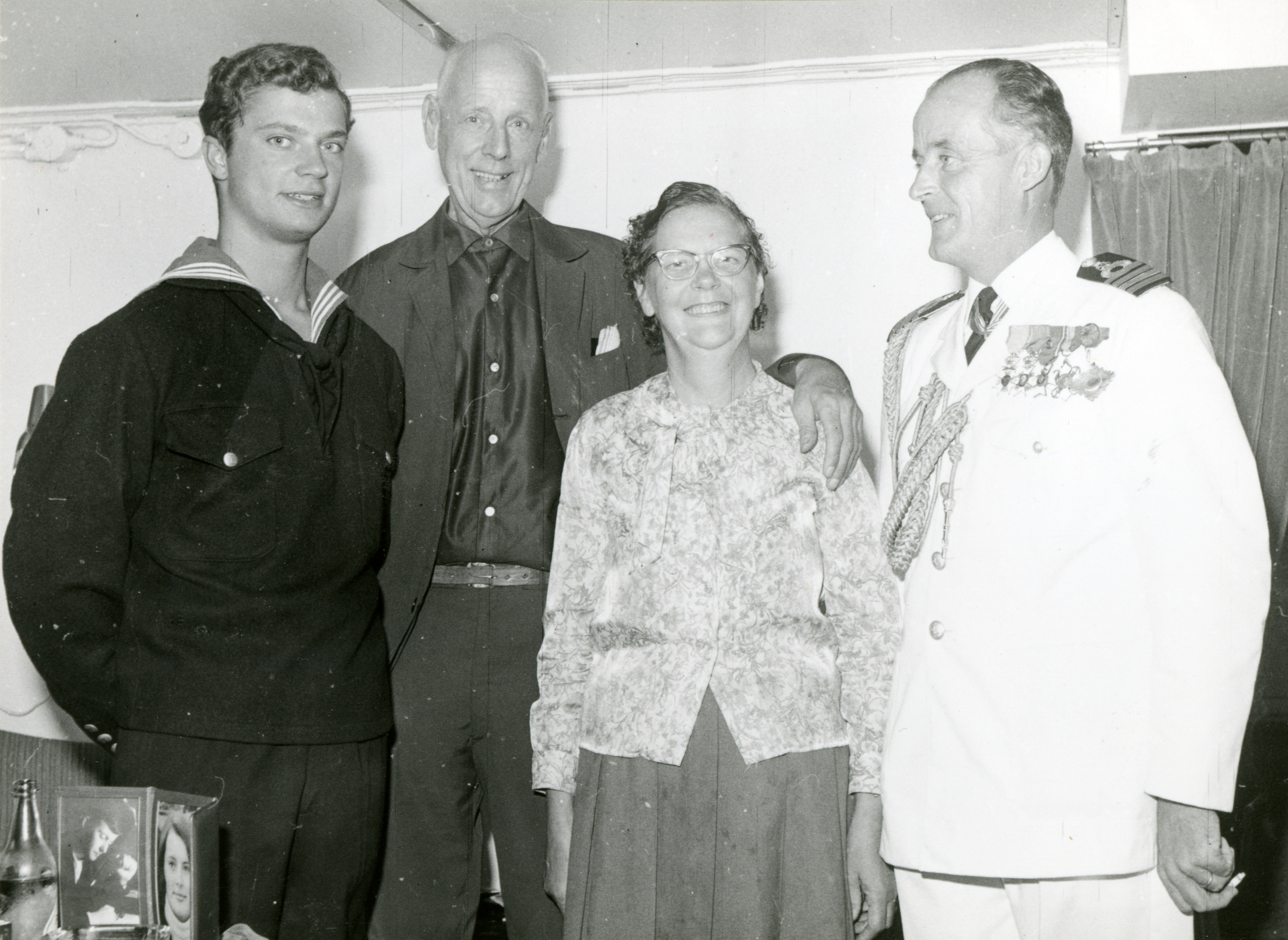 The picture depicts Crown Prince Carl Gustaf, two men and a woman posing for a group photo. At the far right is the captain of HSwMS Älvsnabben, Commander 1st Class (Kommendörkapten 1. graden) Lennart Lindgren.